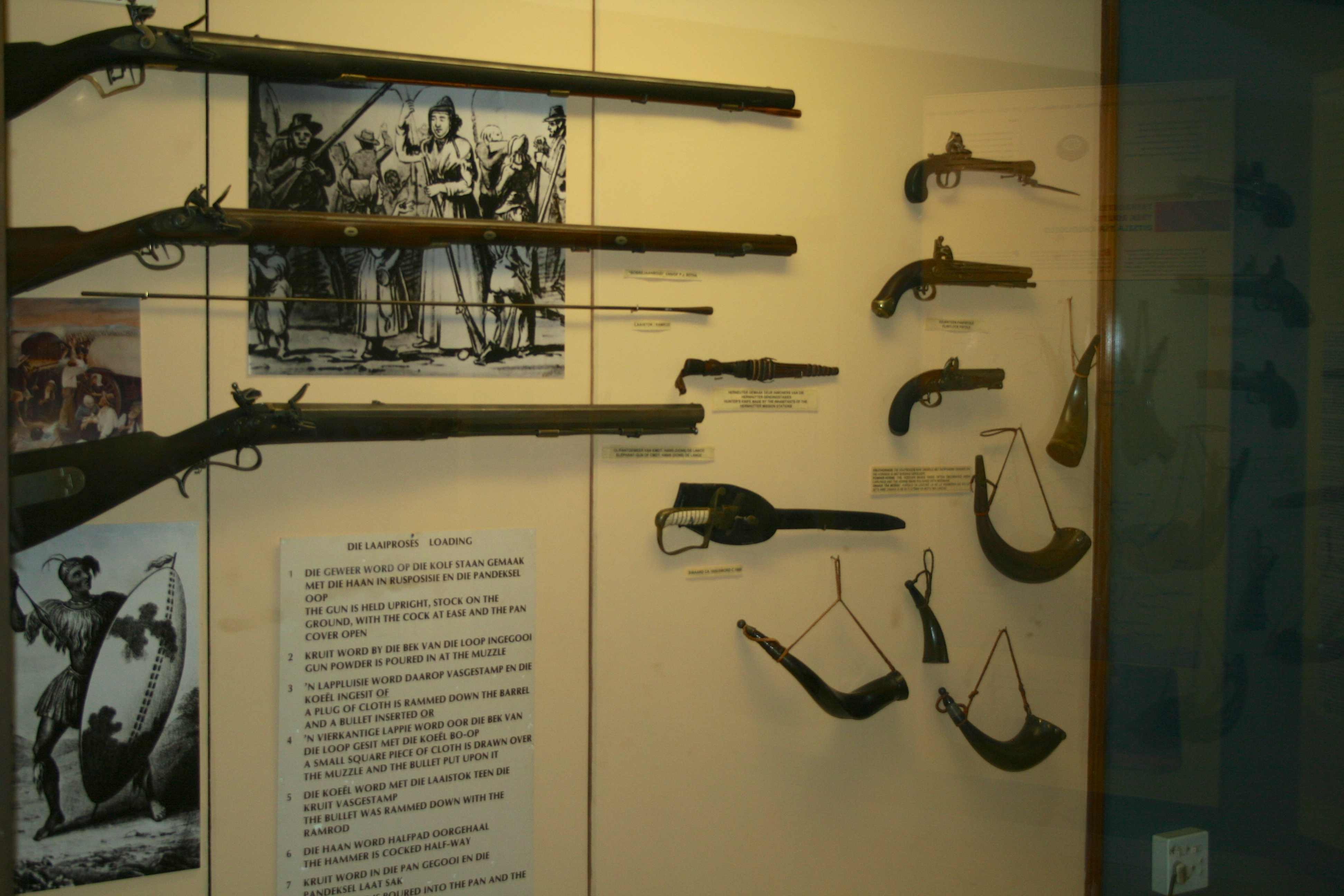 The Voortrekker Monument This media shows a South African Protected Site with SAHRA file reference 9/2/258/0097.